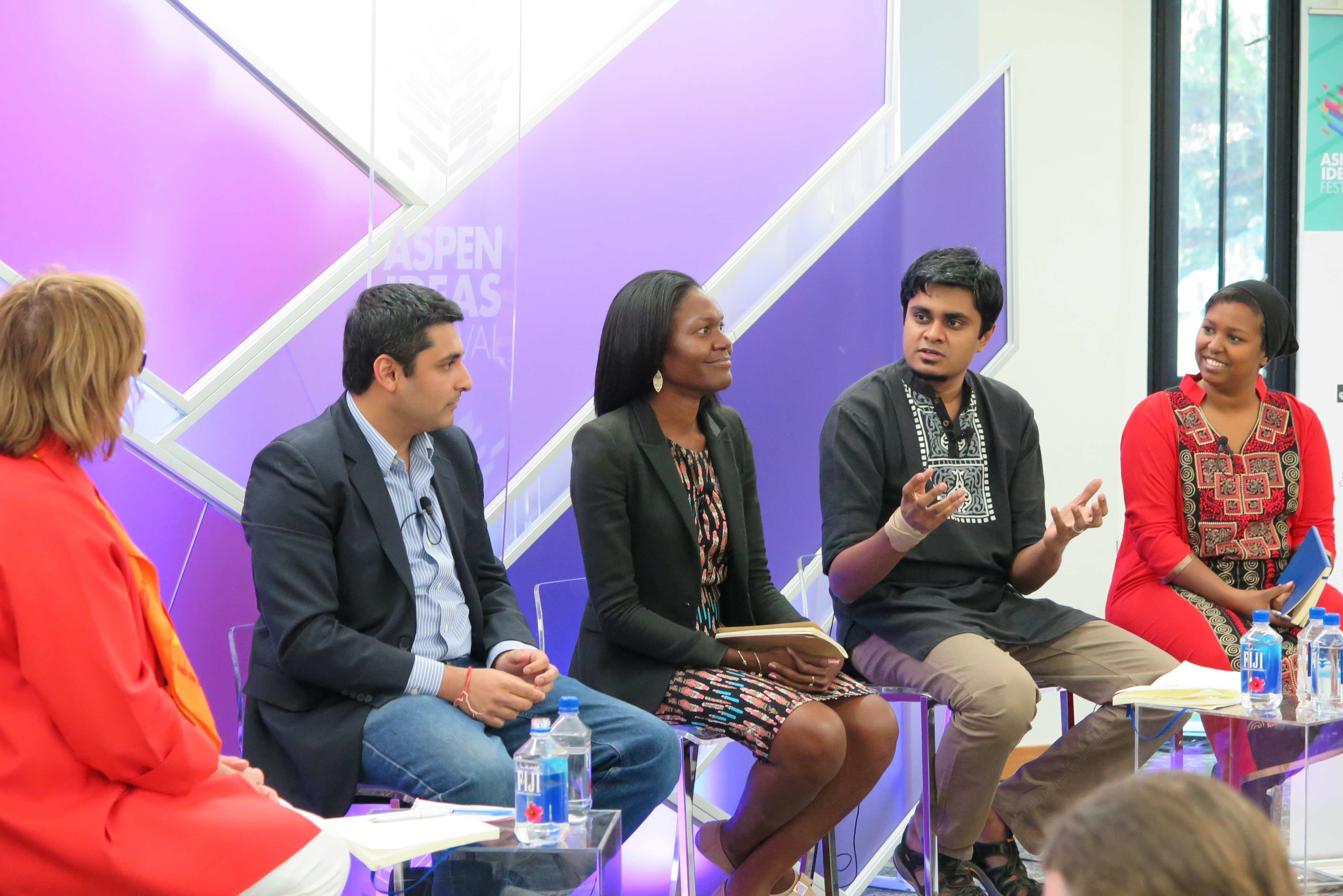 Panel titled "Mission Possible: Social Entrepreneurs on the Frontiers of Health and Development" at Spotlight Health Aspen Ideas Festival 2015. From left to right - moderator, Karan Chopra, Misan Rewane, Rubayat Khan, Jamila Abass